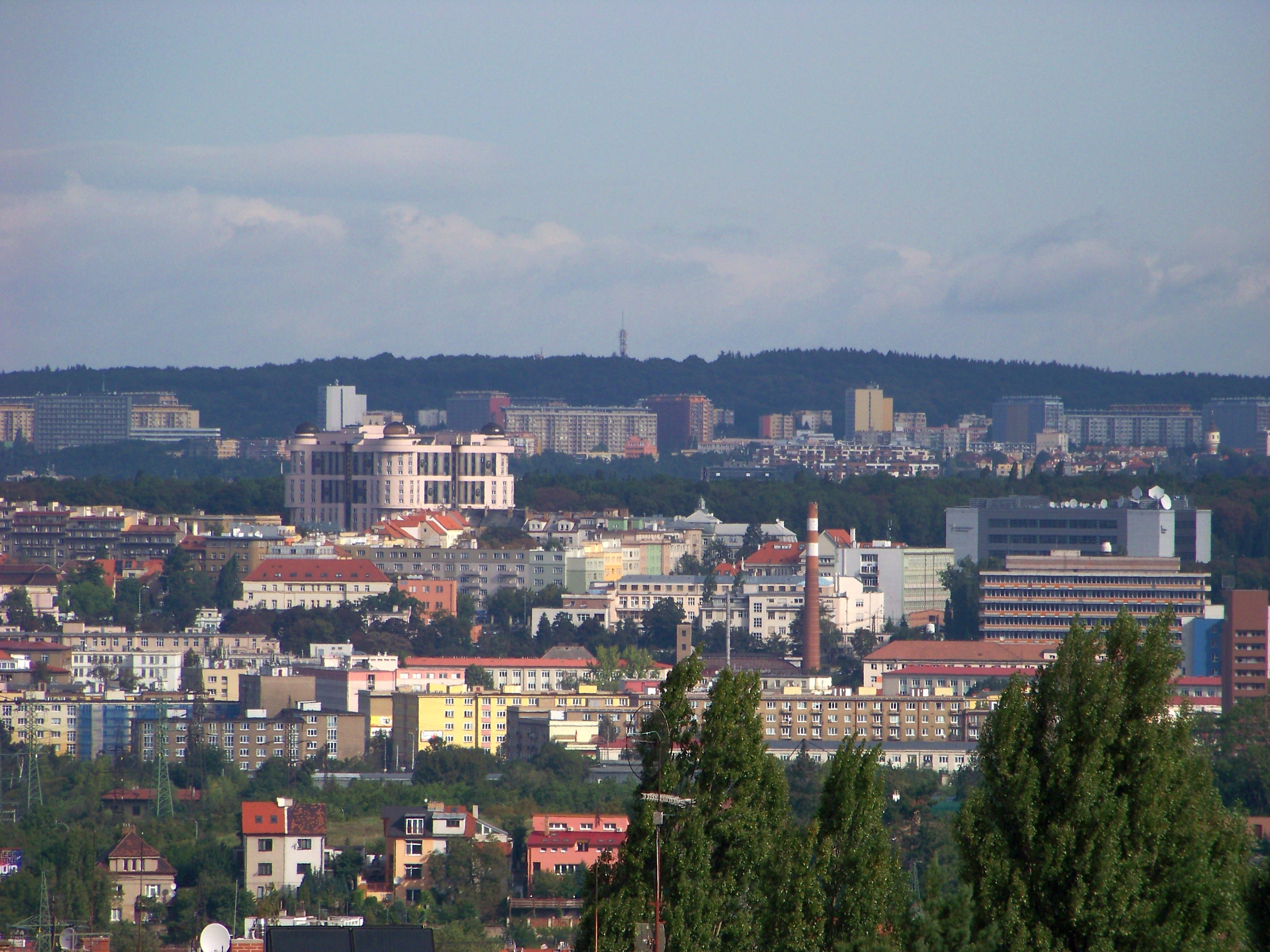 Prague, the Czech Republic. A view from earth berm near Roztyly to Vinohrady, Ládví.